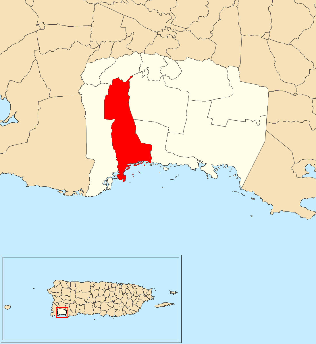 Palmarejo, Lajas, Puerto Rico locator map